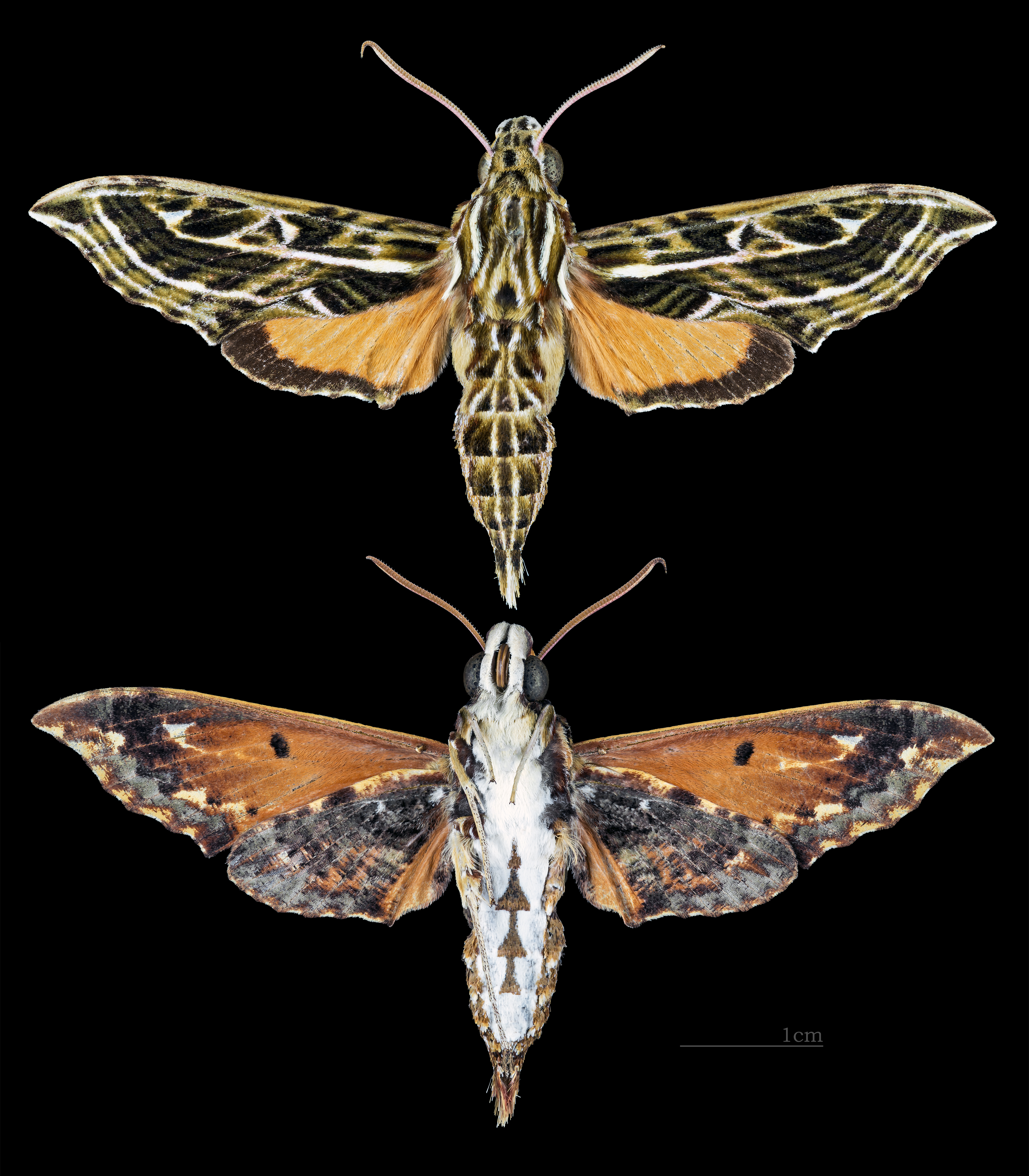 Eupanacra pulchella - Two views of same specimen Collection of the Mathematician Laurent Schwartz